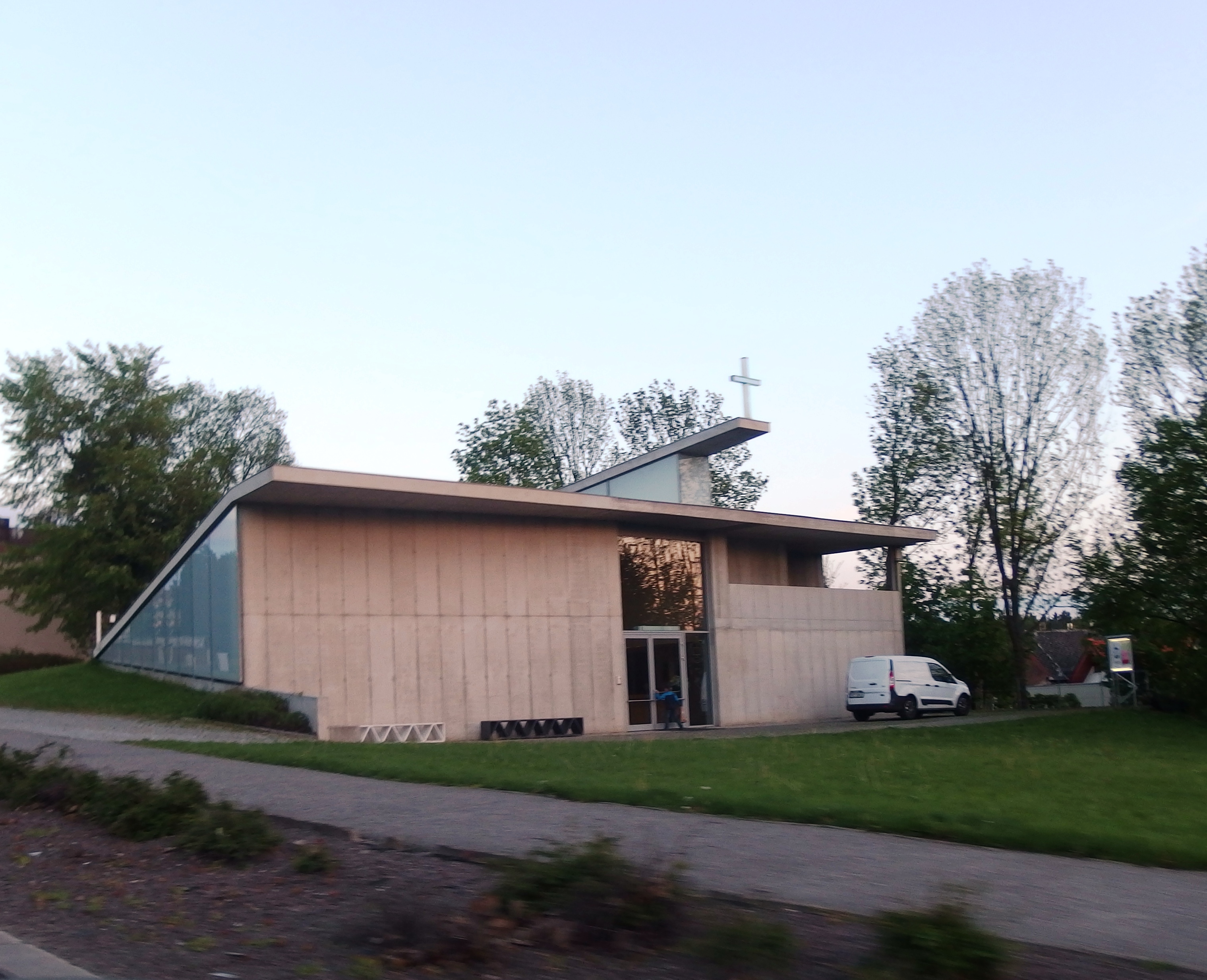 Litomyšl, Svitavy District, Czech Republic.